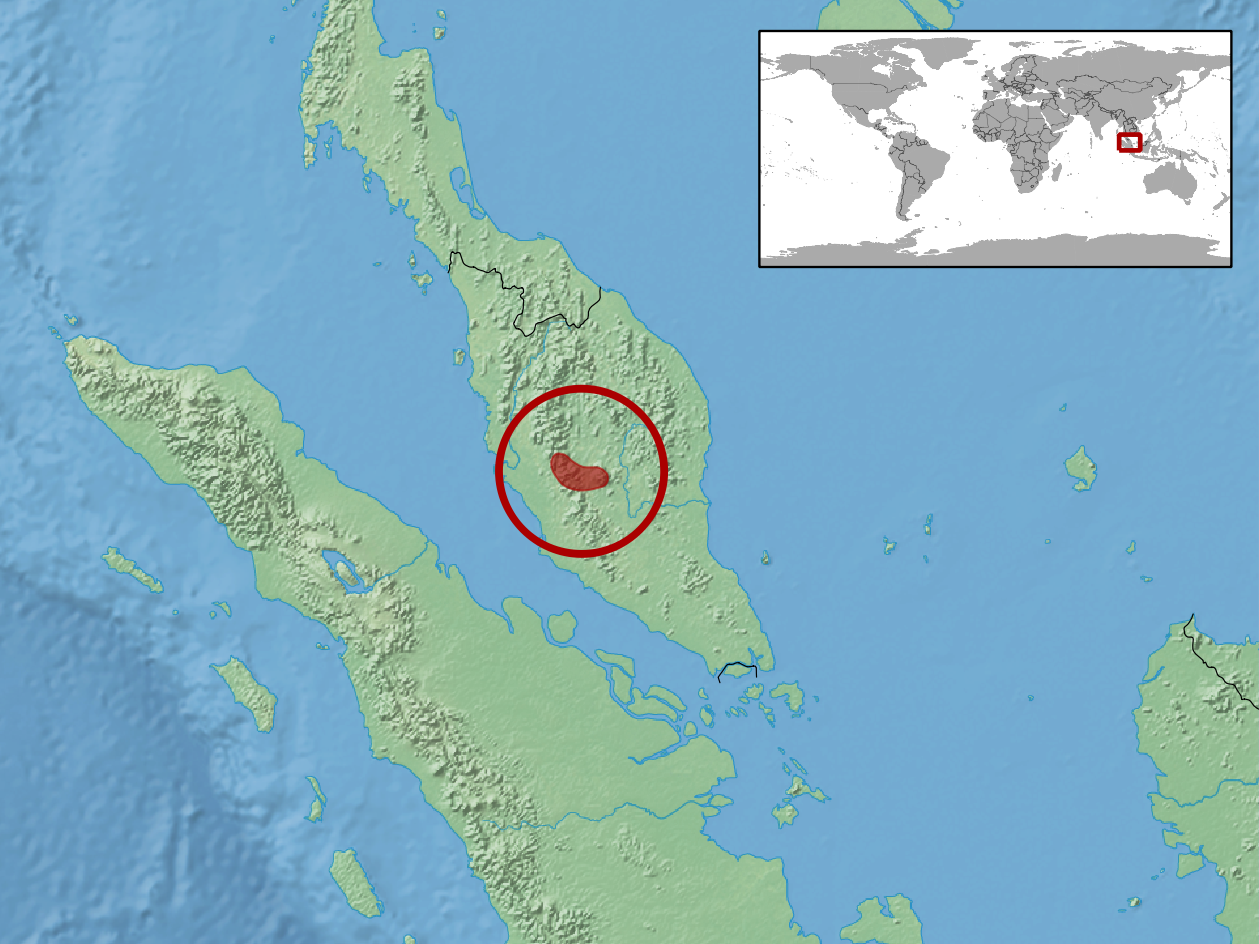 geographic distribution of Cnemaspis flavolineata (Native: Malaysia (Peninsular Malaysia))